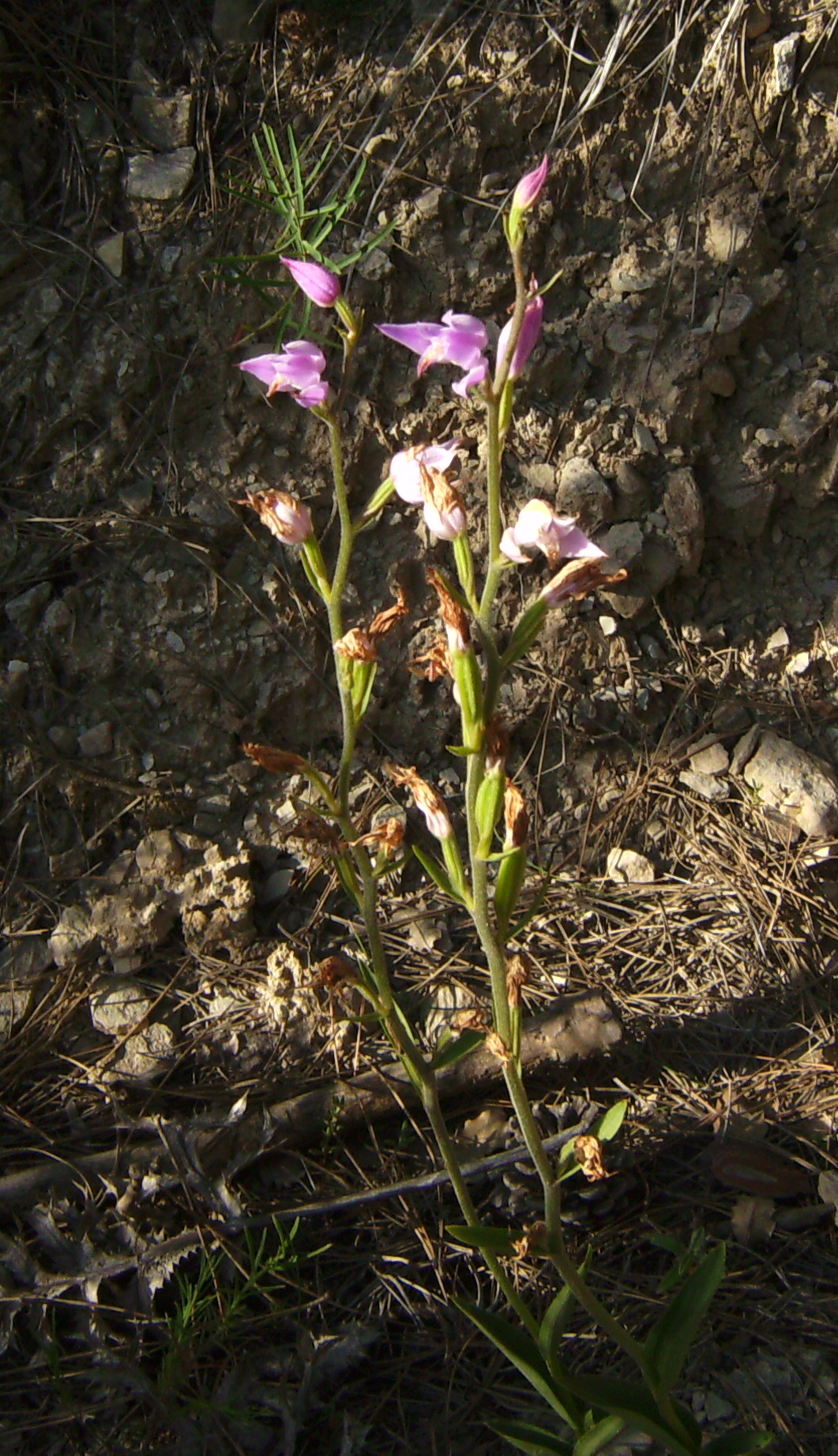 Cephalanthera rubra, Castelltallat, catalonia